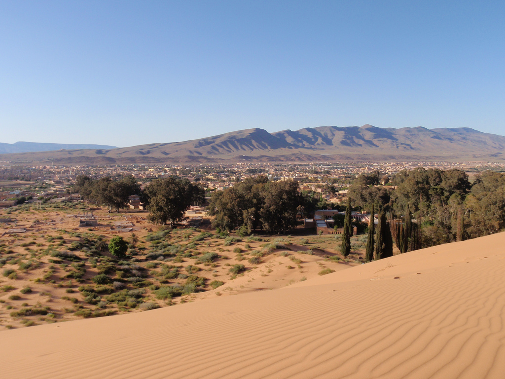 Ain Sefra